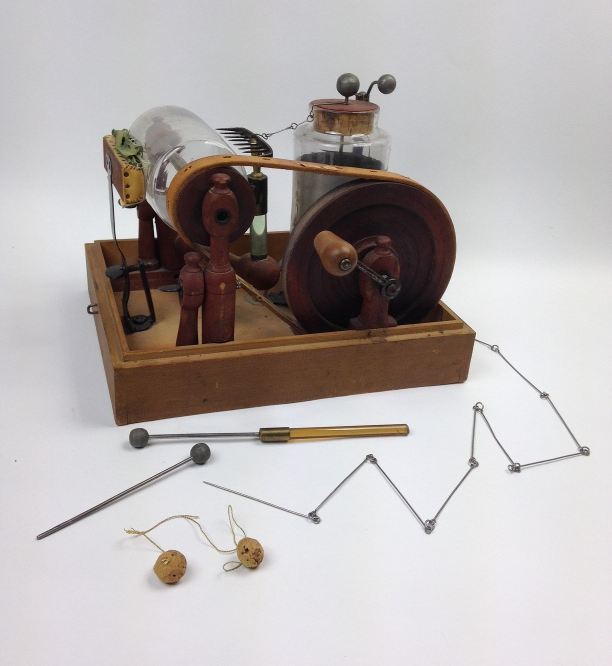 Corbett's electrostatic machine at Canterbury Shaker Village